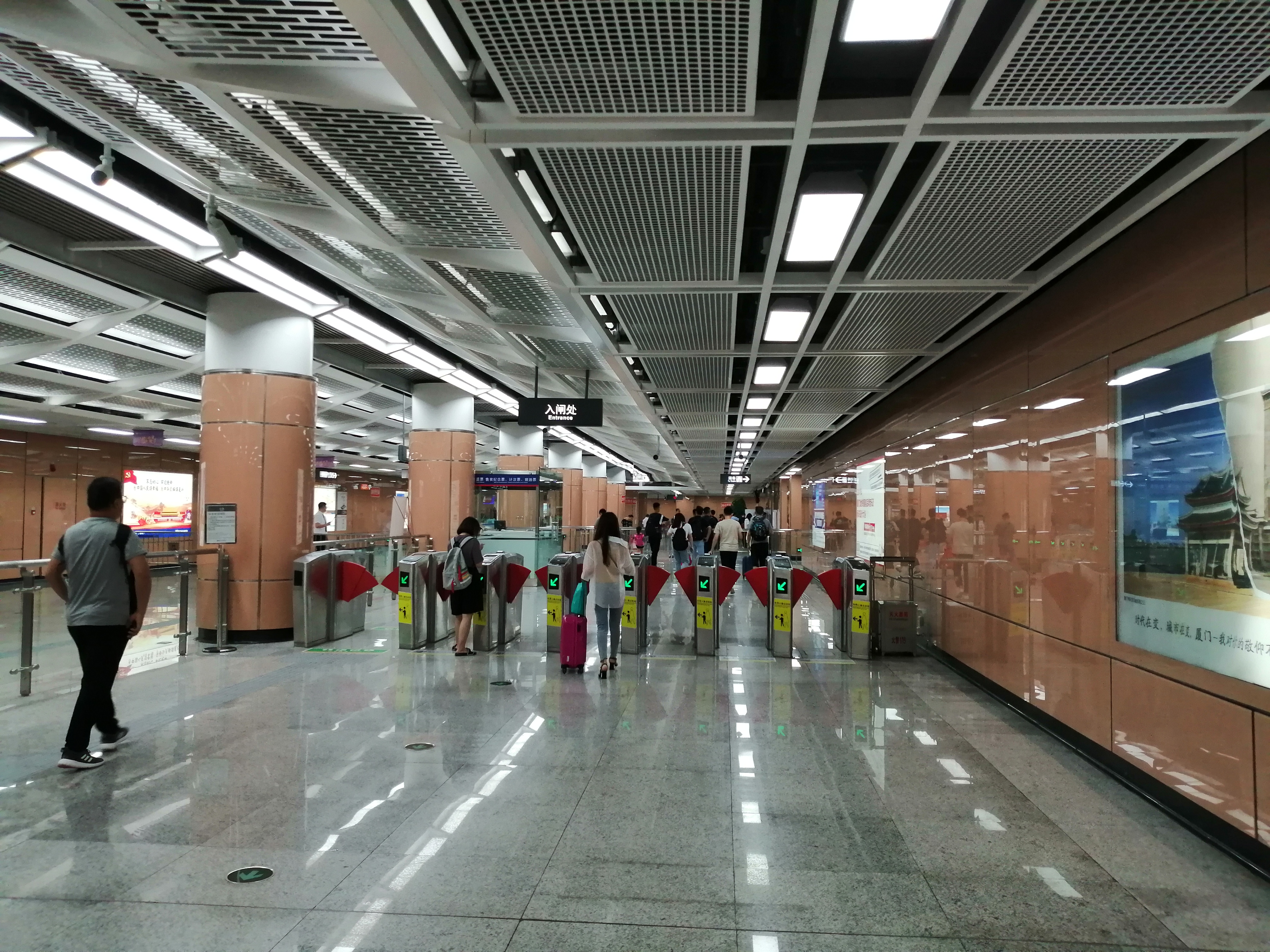 The entrance gate of Metro Xiamen North Railway Station. 中文（中国大陆）: 厦门北站地铁站的进站通道